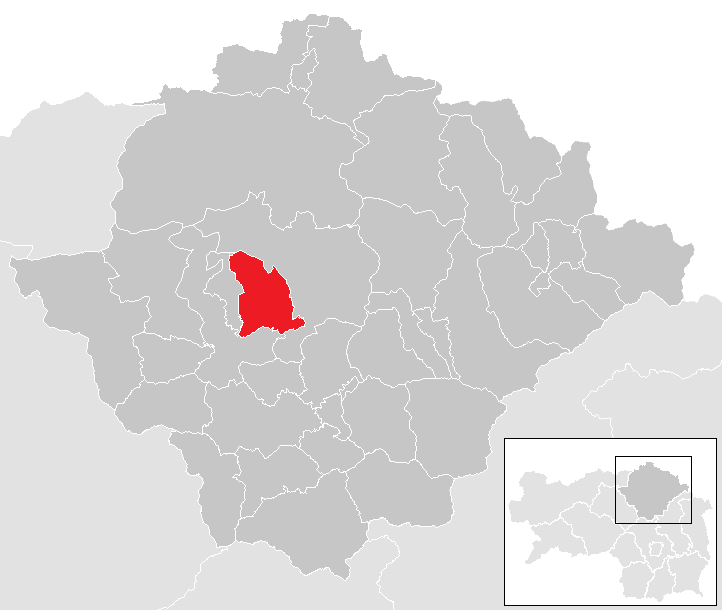 district Bruck-Mürzzuschlag